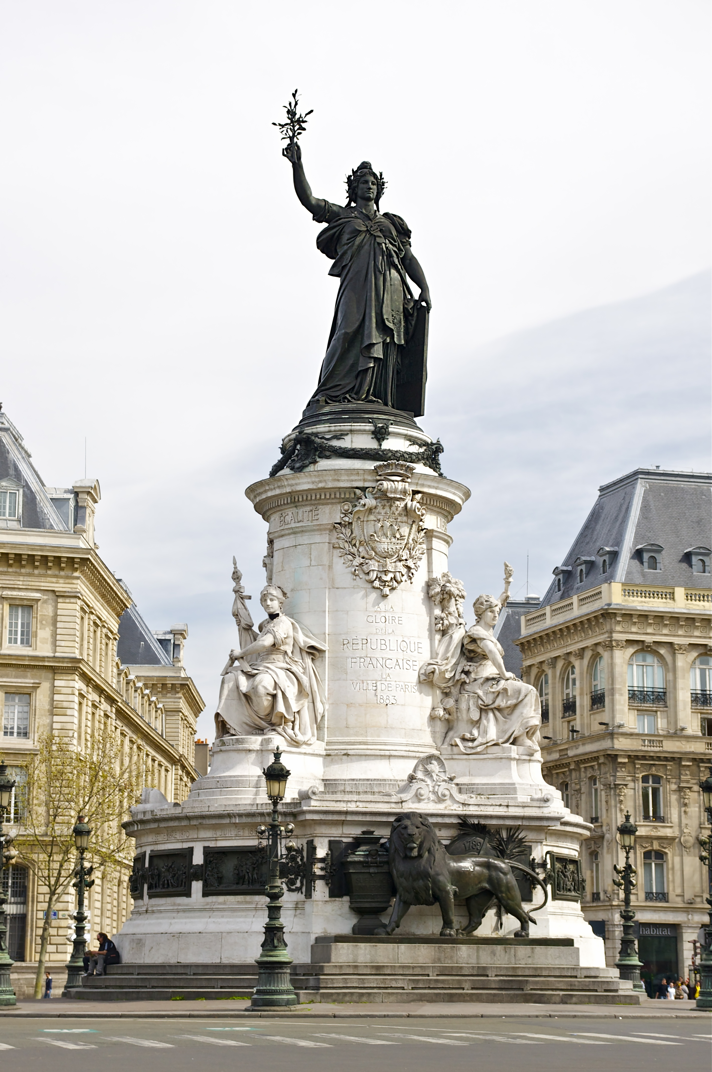 General view of the "Monument to the Republic", Place de la République, Paris.